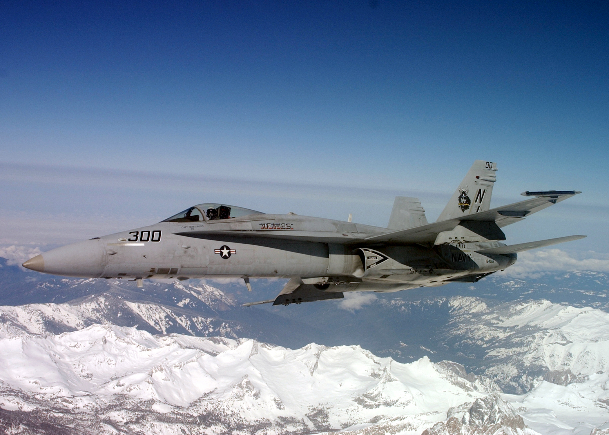 Naval Air Station Lemoore, Calif. (May 5, 2003) - An F/A-18C Hornet assigned to the “Rough Raiders” of Strike Fighter Squadron One Two Five (VFA-125) flies over the Sierra Nevada Mountains during a routine training flight. The "Rough Raiders" provide combat readiness training for pilots to fill F/A-18 aircrew billets throughout the Navy and Marine Corps. U.S. Navy photo by Photographer's Mate 3rd Class Greg E. Badger. (RELEASED)